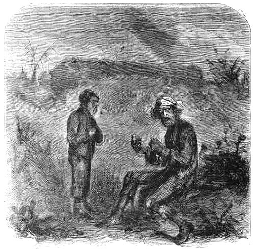 Great Expectations, Pip and Magwitch on the marshes, by John McLenan (1860)